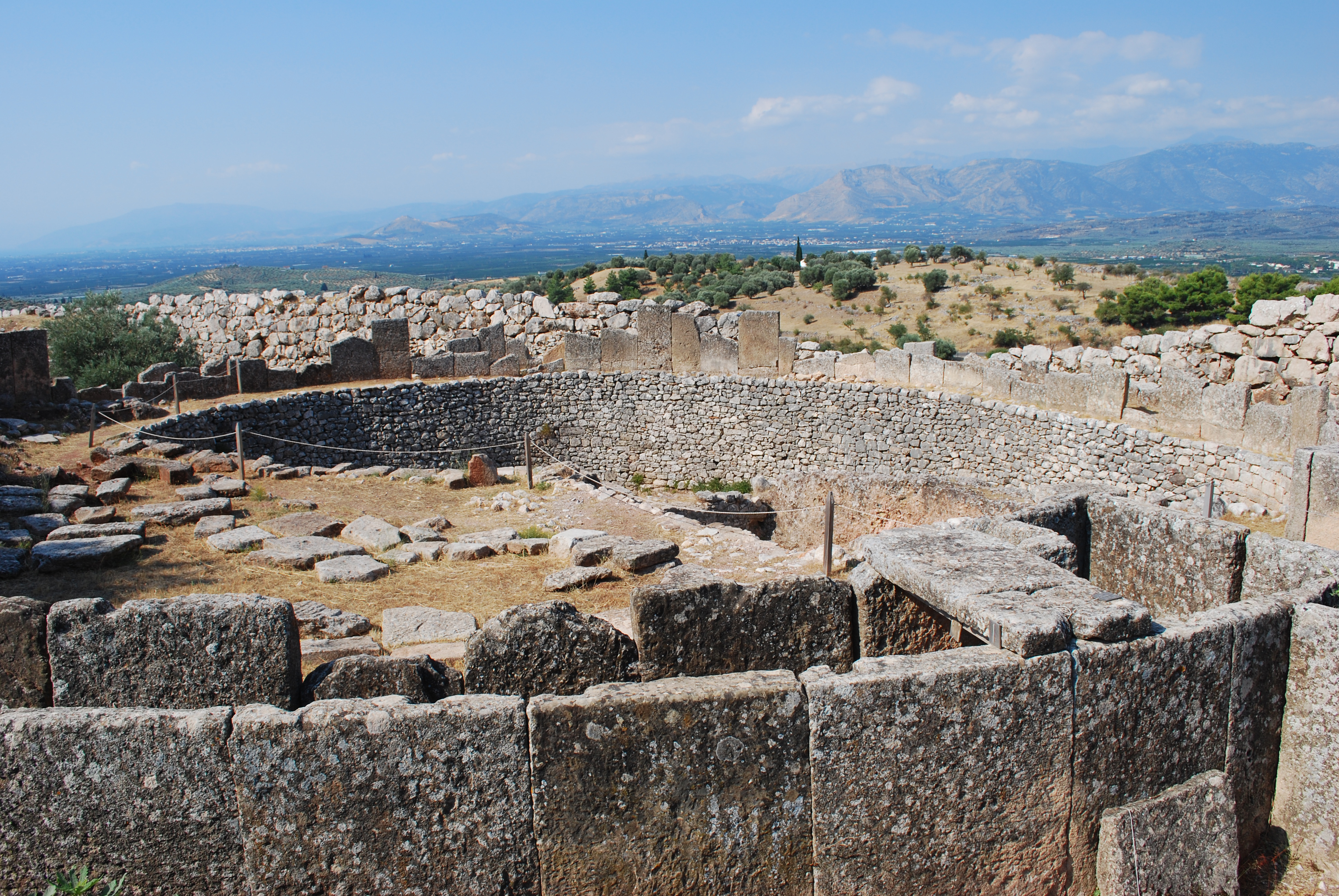 Mycenae : Grave Circle A.